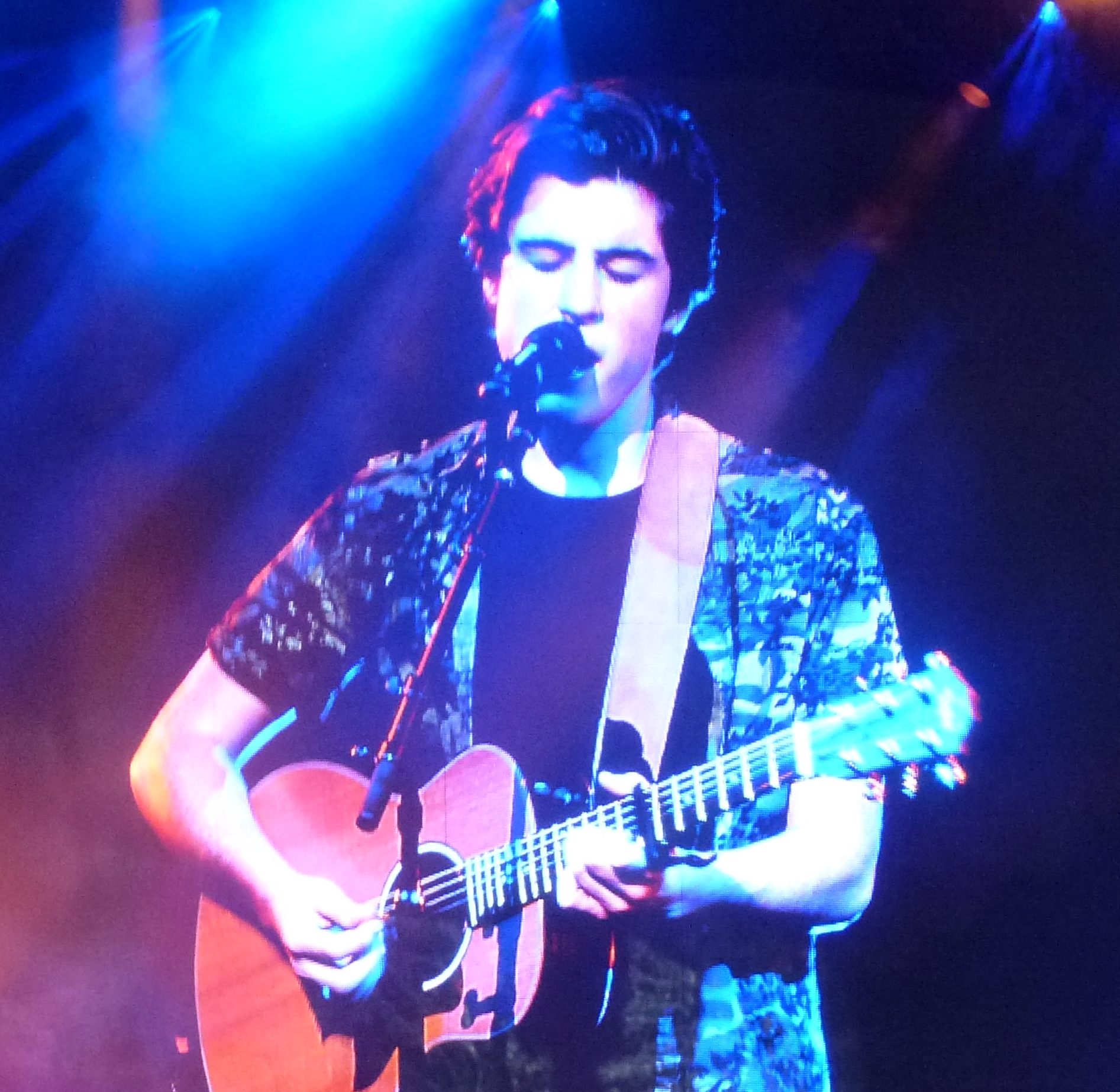 American music artist Sam Woolf performing at Wolf Trap in Vienna, Virginia during the 2014 American Idol season 13 tour.